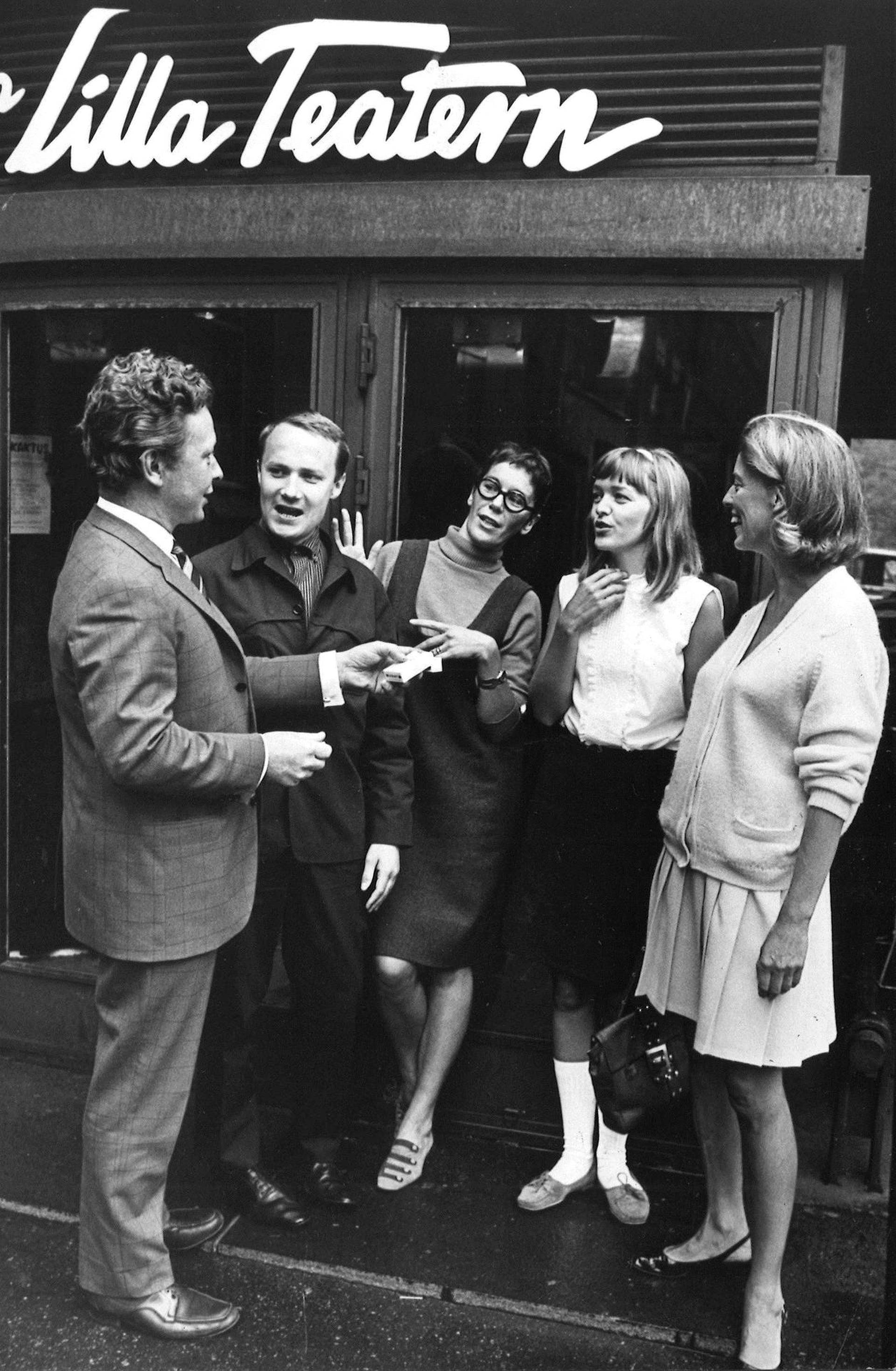 Photograph of actors of Lilla Teatern, Helsinki: Lasse Pöysti, Bengt Ahlfors, Lisa Bergström, Elina Salo, and Birgitta Ulfsson.